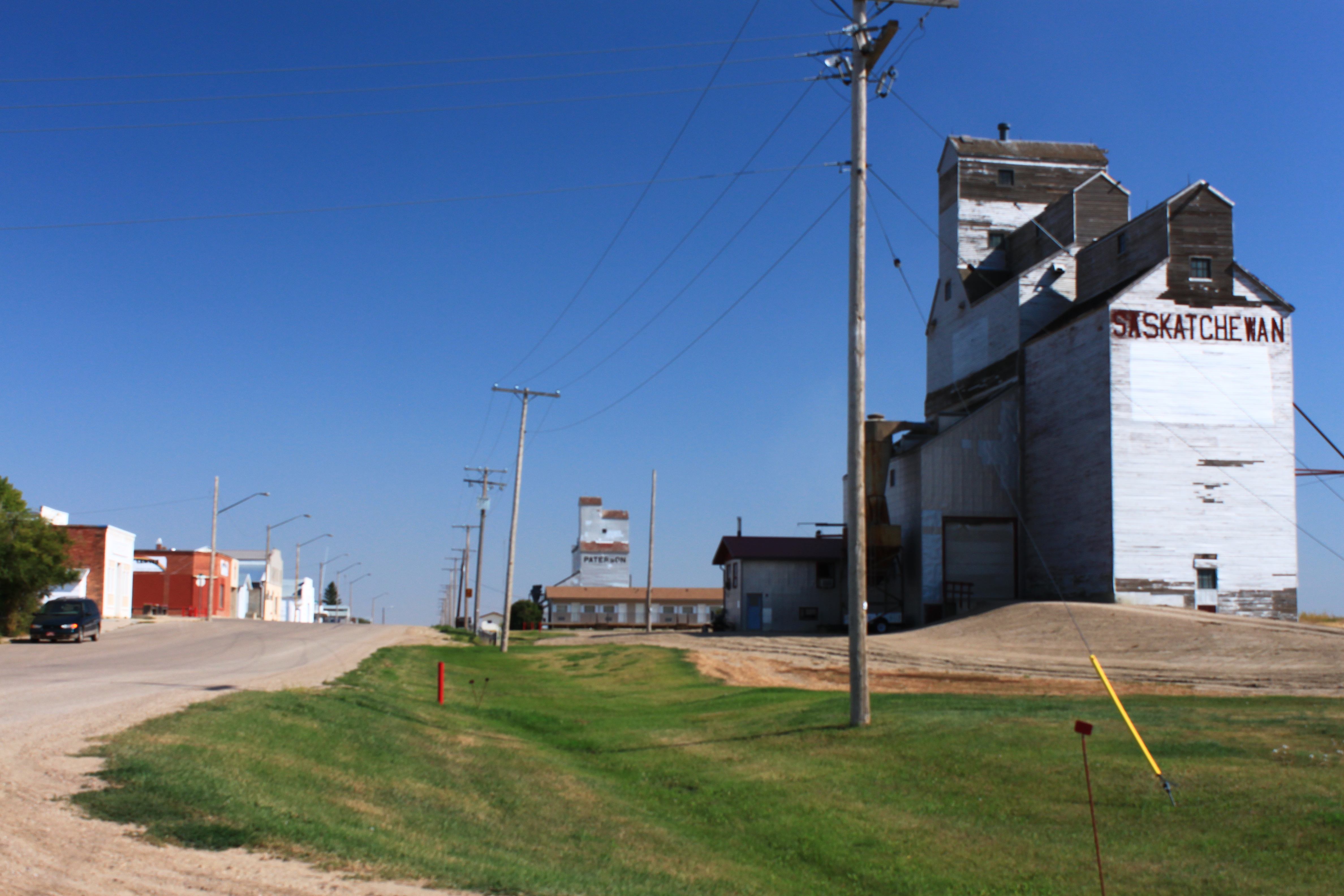 Grain elevators and business section of the rural community of Fox Valley, Saskatchewan, Canada.